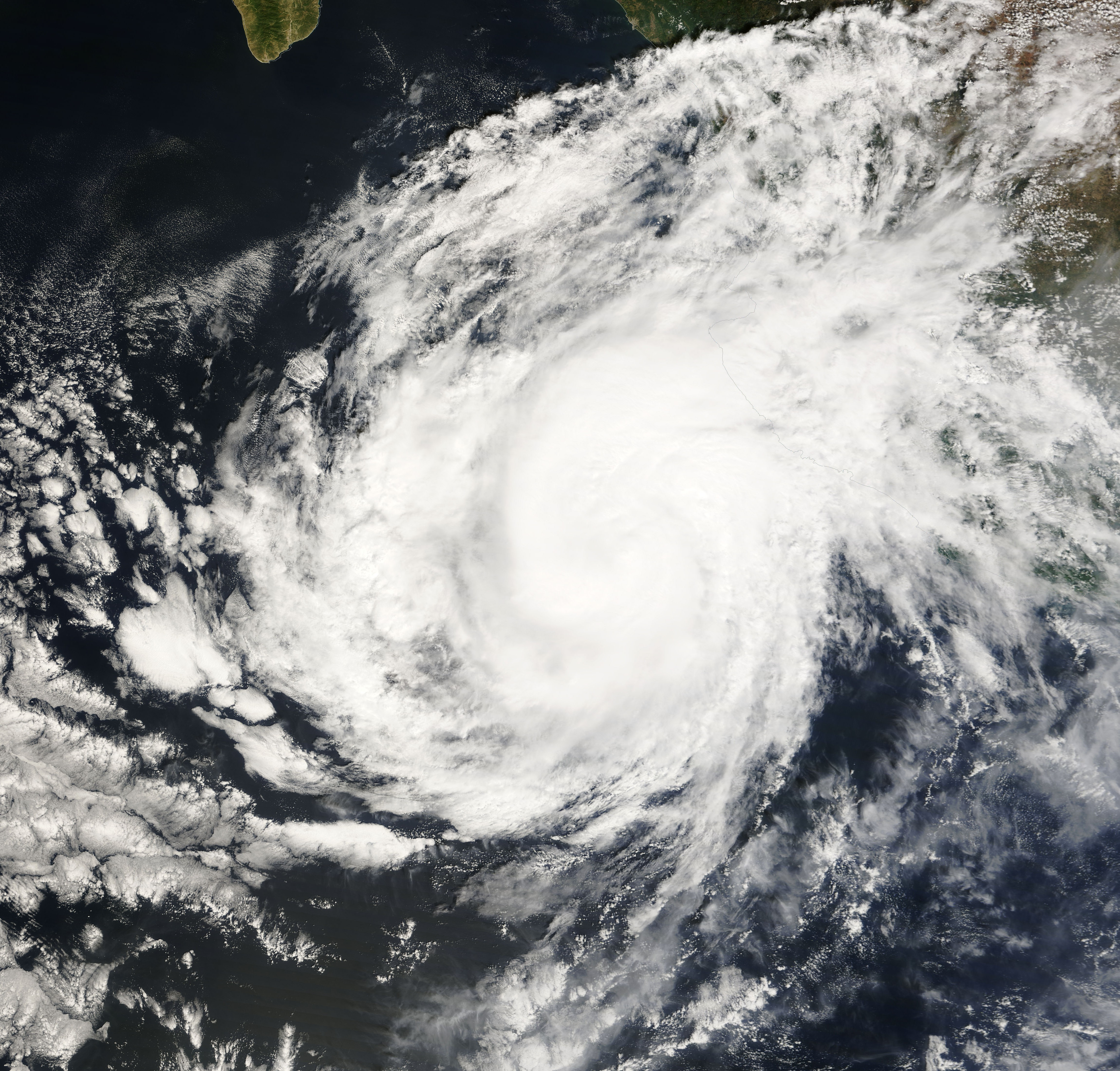 Tropical Storm Kiko on October 20. This image was captured by the MODIS instrument on NASA's Terra satellite at approximately 1800 UTC.